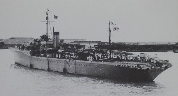 HIJMS Shirataka